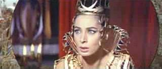 Screenshot with Rita Gam from the trailer of the film King of Kings.